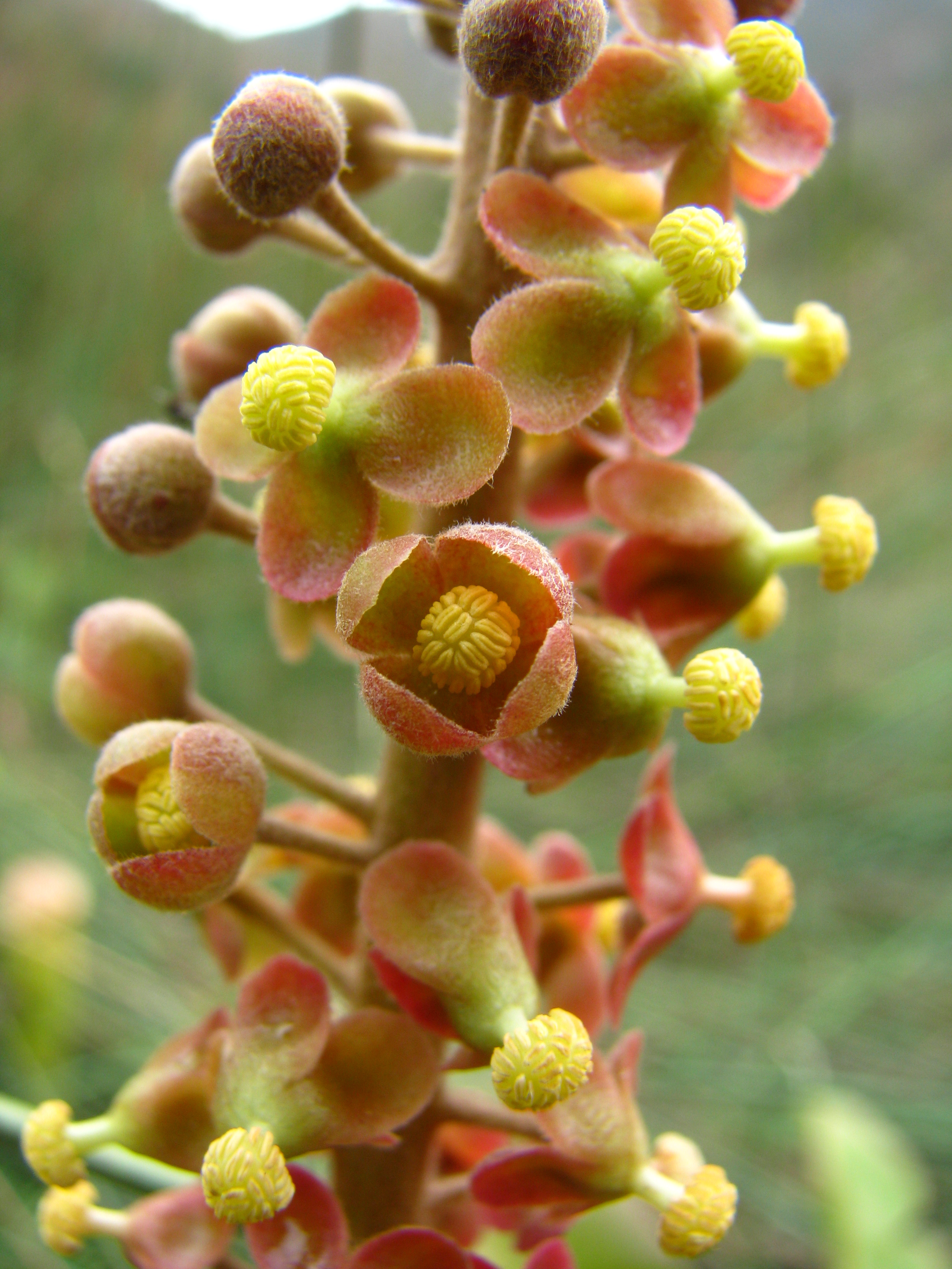 名稱：豬籠草, 豬仔籠, 水灌草, 食蟲草, 猴了埕, 猴子籠, 雷公壺, 擔水桶, 公仔瓶, 招財進寶, 袋袋平安 學名：Nepenthes mirabilis (Lour.) Druce 英文名稱：Pitcher Plant 習性：草本 科屬：豬籠草科豬籠草屬 REF